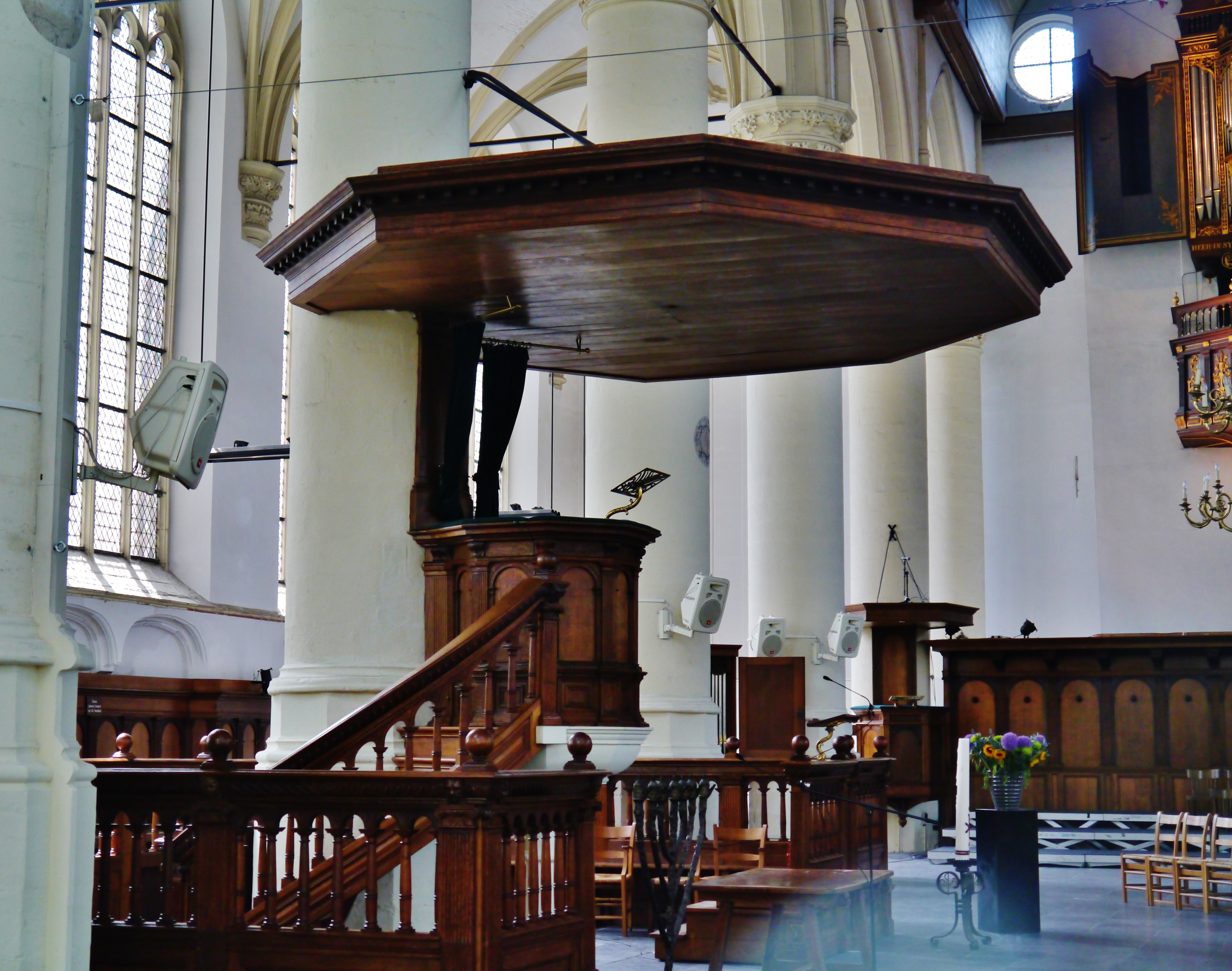 Pulpit of the Hoogland Church, Leiden, Province of South Holland, Netherlands